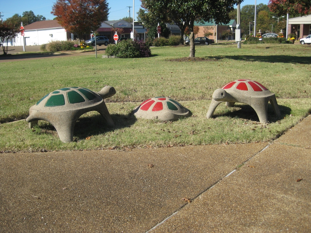 Park in Downtown Tunica, Mississippi